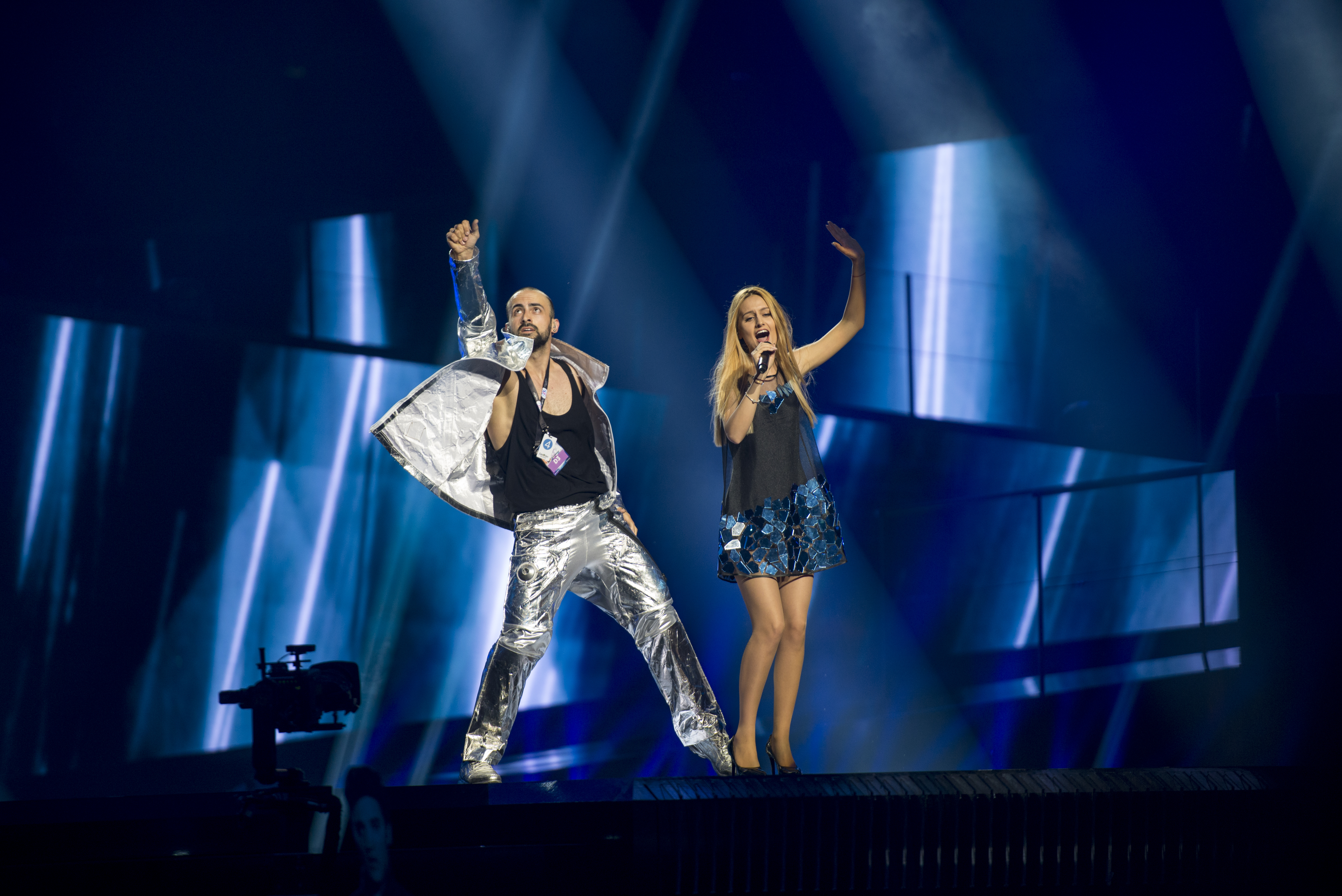 Lidia Isac representing Moldova with the song "Falling Stars" during a rehearsal before the first semi final of the Eurovision Song Contest 2016 in Stockholm. (Help translate this text)